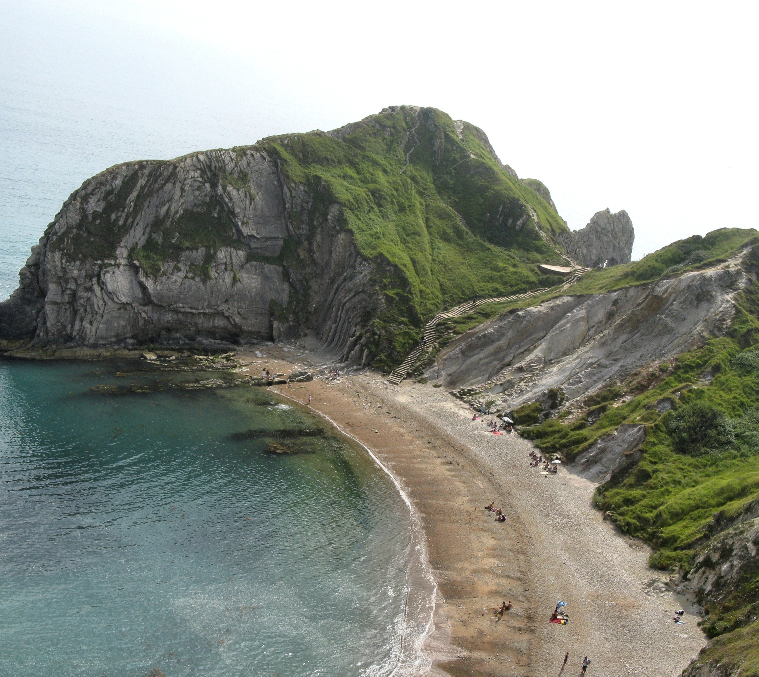 Man O’War Cove in St Oswalds Bay, Dorset, England (near Lulworth Cove and the natural rock arch of Durdle Door). The steps down to Man O’War Cove from the cliffs above are clearly seen. A tiny trace of the light coming through the natural rock arch of Durdle Door is seen slightly to the right of the top of the steps. The lack of visibility in the distance is due to sea mist.